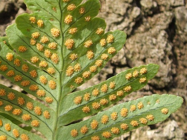 Polypody (a fern) - the underside This species of fern was growing on a tree, beside one of the paths in the woodland walks at Ardardan. There are three British species of Polypody: Southern (Polypodium cambricum), Common (P. vulgare), and Western (P. interjectum); there are also three hybrids (one for each of the three possible pairings of these species). Visible here on the underside of the frond are the golden-coloured "sori"; a sorus is a cluster of tiny spore capsules ("sporangia"). The species shown here is not one of the hybrids; these cannot produce viable spores, and have only small purple sori. In addition, Southern Polypody does not occur in this region, so the fern found here is either Western or Common Polypody. Distinguishing between these two species is not easy, since they are very similar. The features that can aid identification include the shape of the sori (either round or oval), and the shape of the finger-shaped leaflets, known as "pinnae", which may end in a sharp or a blunt tip, and which may have serrated edges or not. However, only a microscopic examination will give an identification with certainty. [See "The Fern Guide" by James Merryweather (3rd ed., 2007, Field Studies Council)]